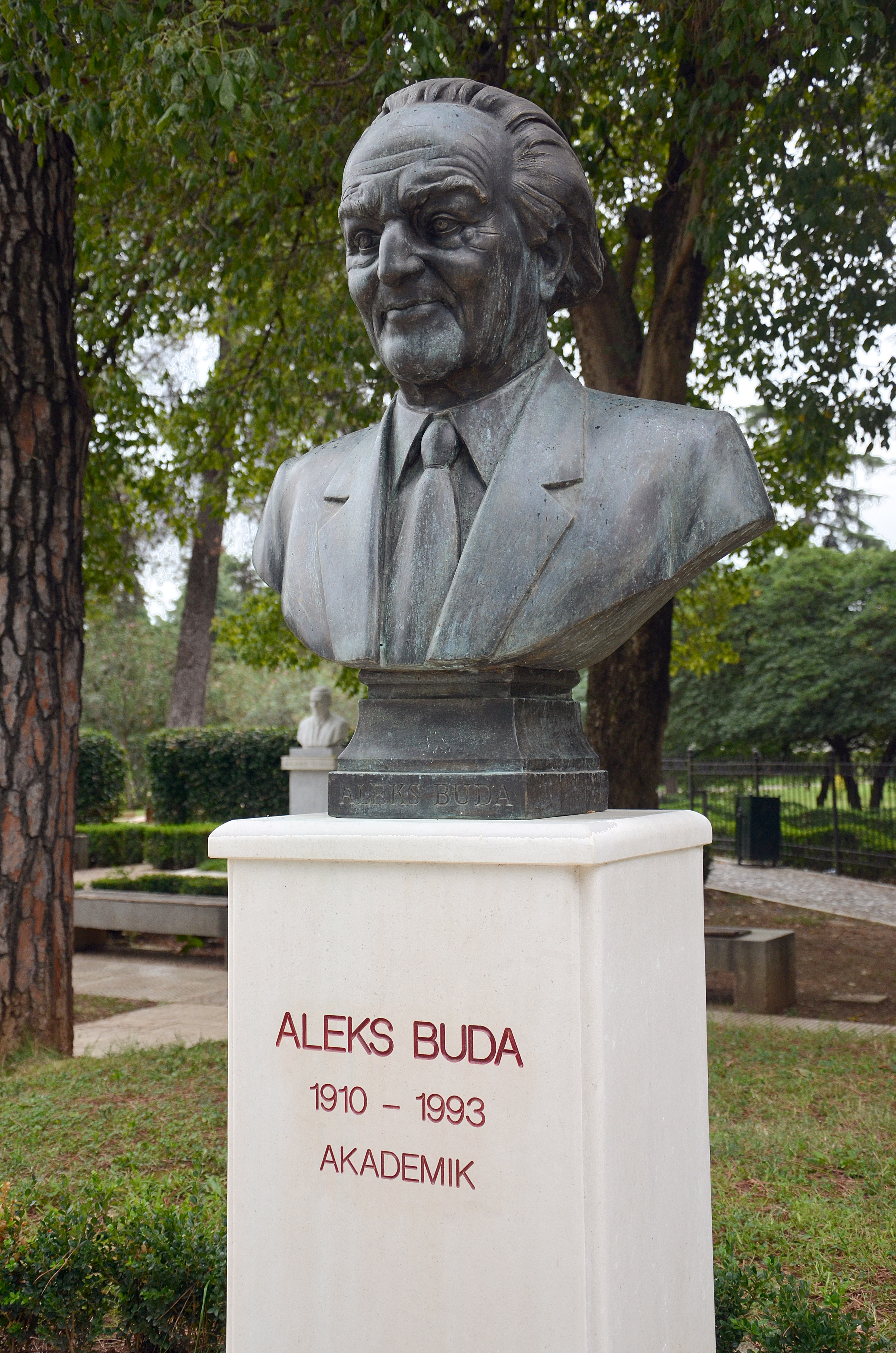 Bust of Aleks Buda, Albanian historian in Tirana, Albania